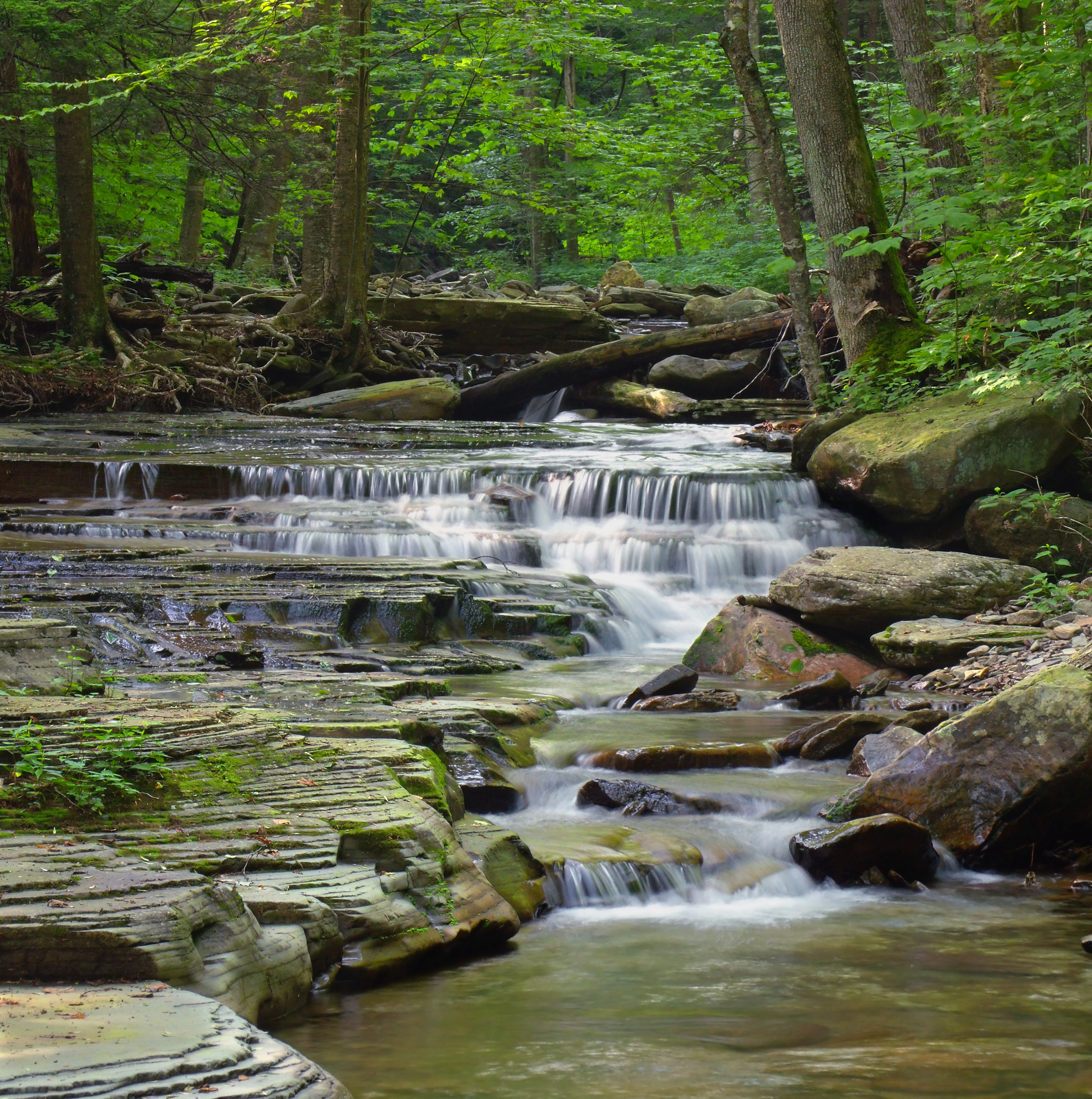 State Game Land 13, Sullivan County.